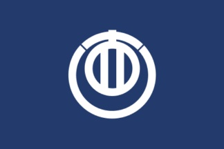 Flag of Nogata Fukuoka